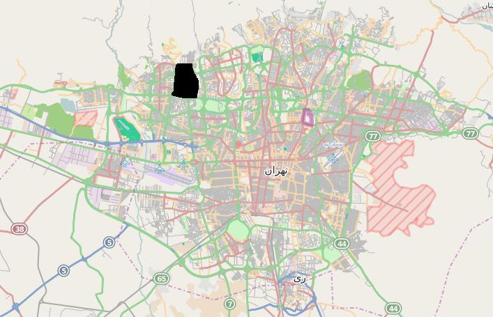 Poonak in Tehran map